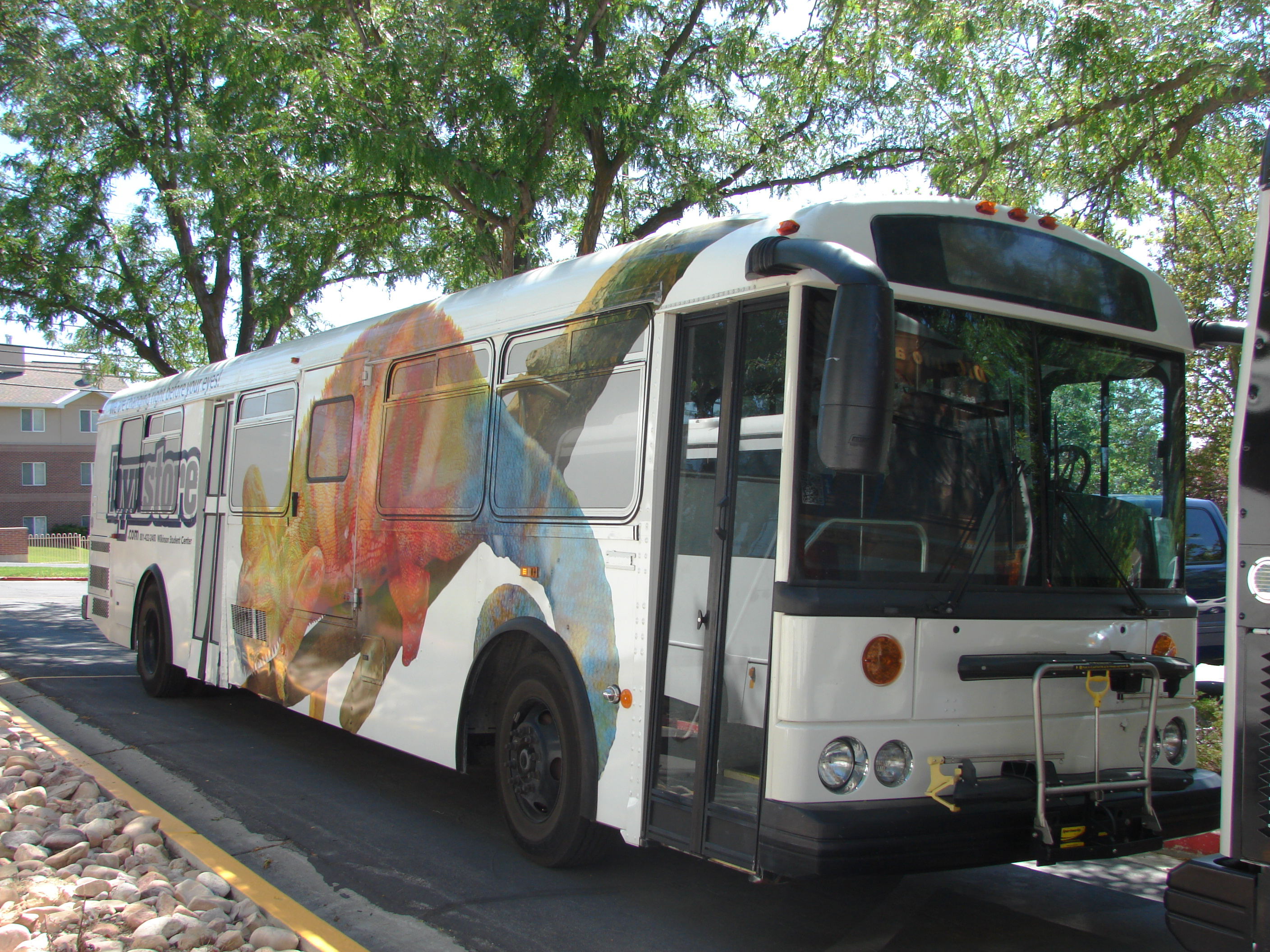 One of The Ryde's buses parked for the summer while not in use